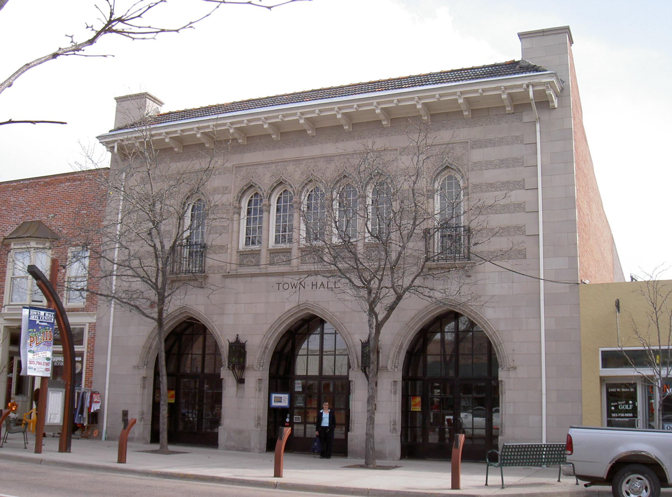 Taken in March, 2005 by Tim Clare